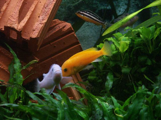 Maylandia estherae